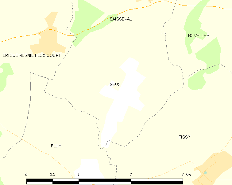 Map of French municipality Seux